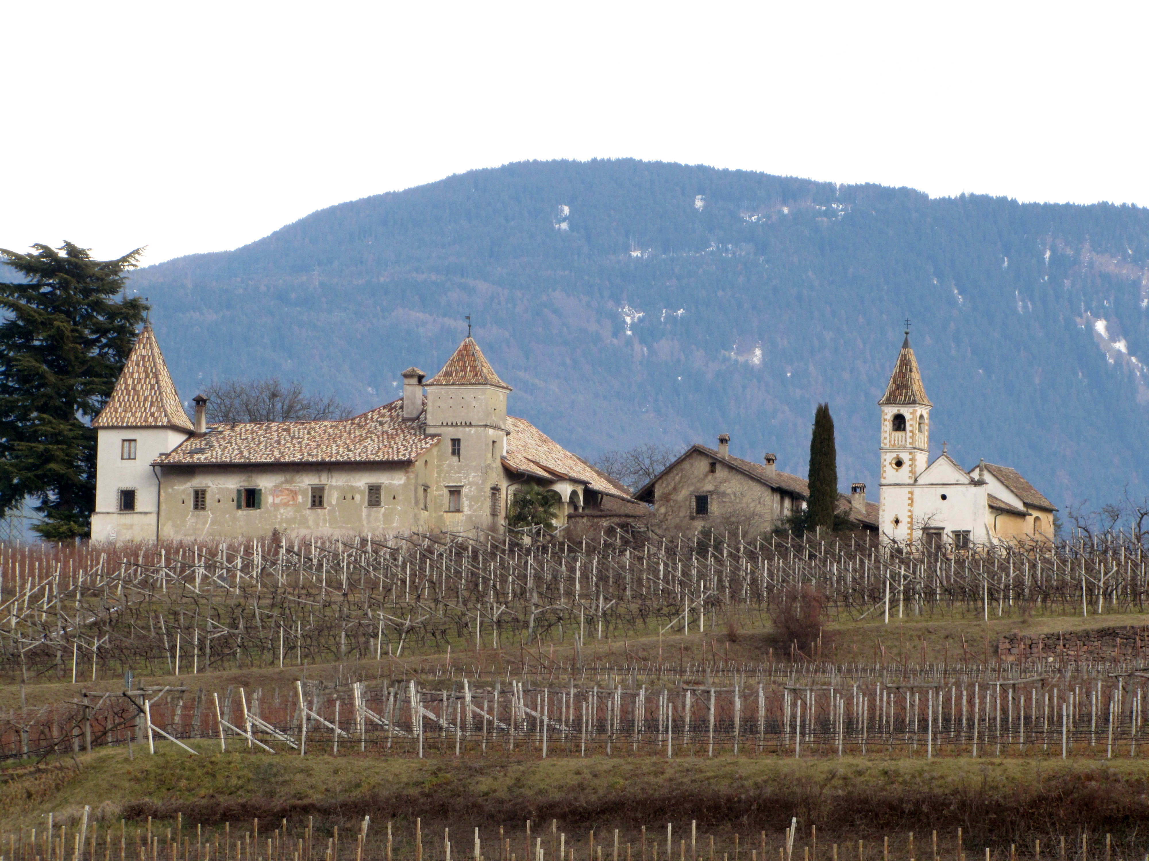 Ansitz Kreit in Eppan was built in the 16th century. The chapel St. Anton Abt was built in 1661